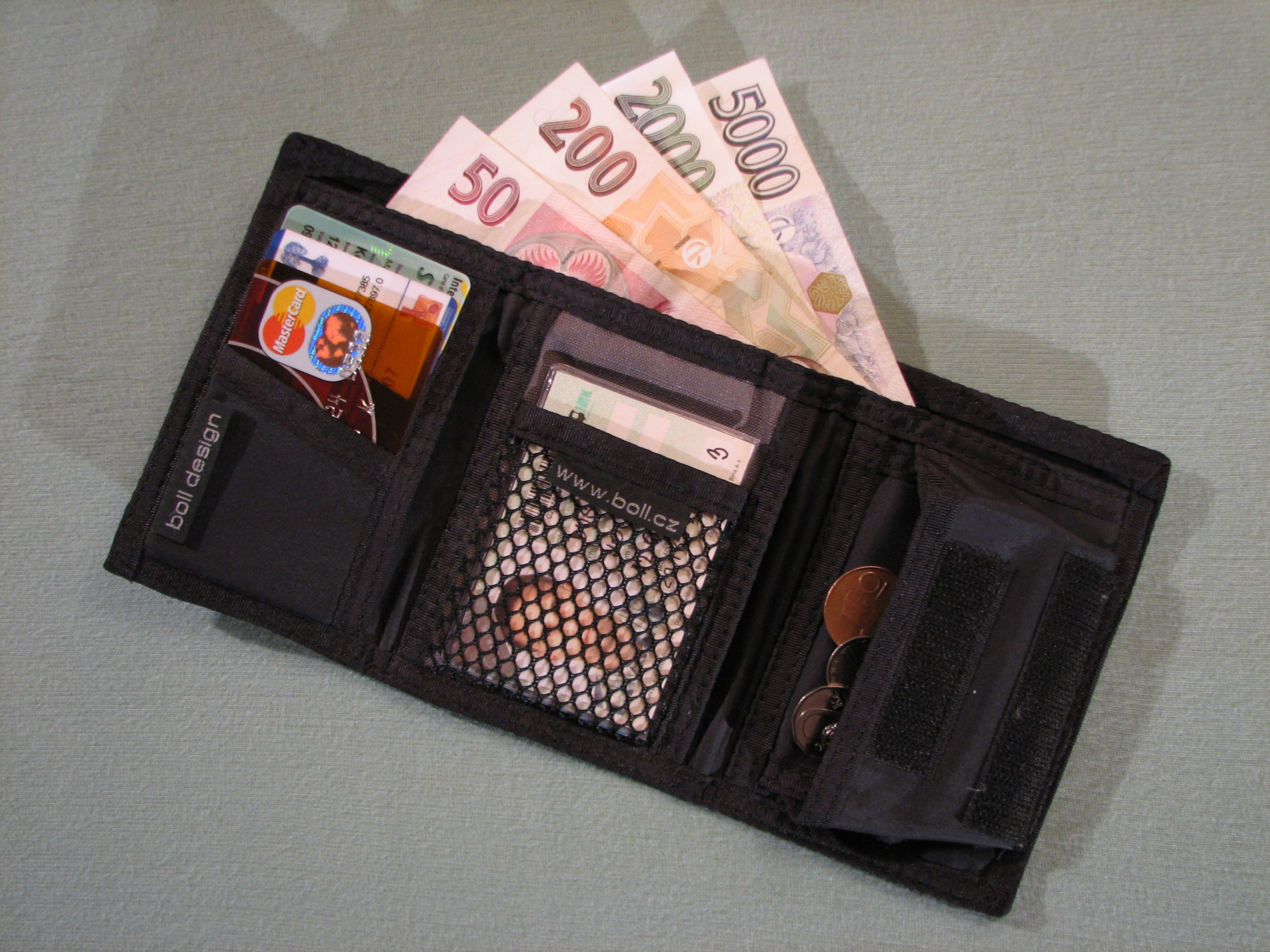 A Czech Wallet